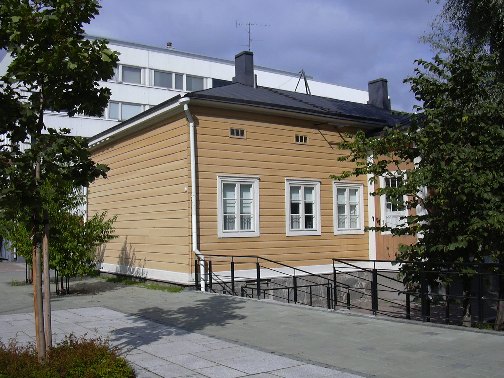 Sibelius' house in Hämeenlinna, Finland